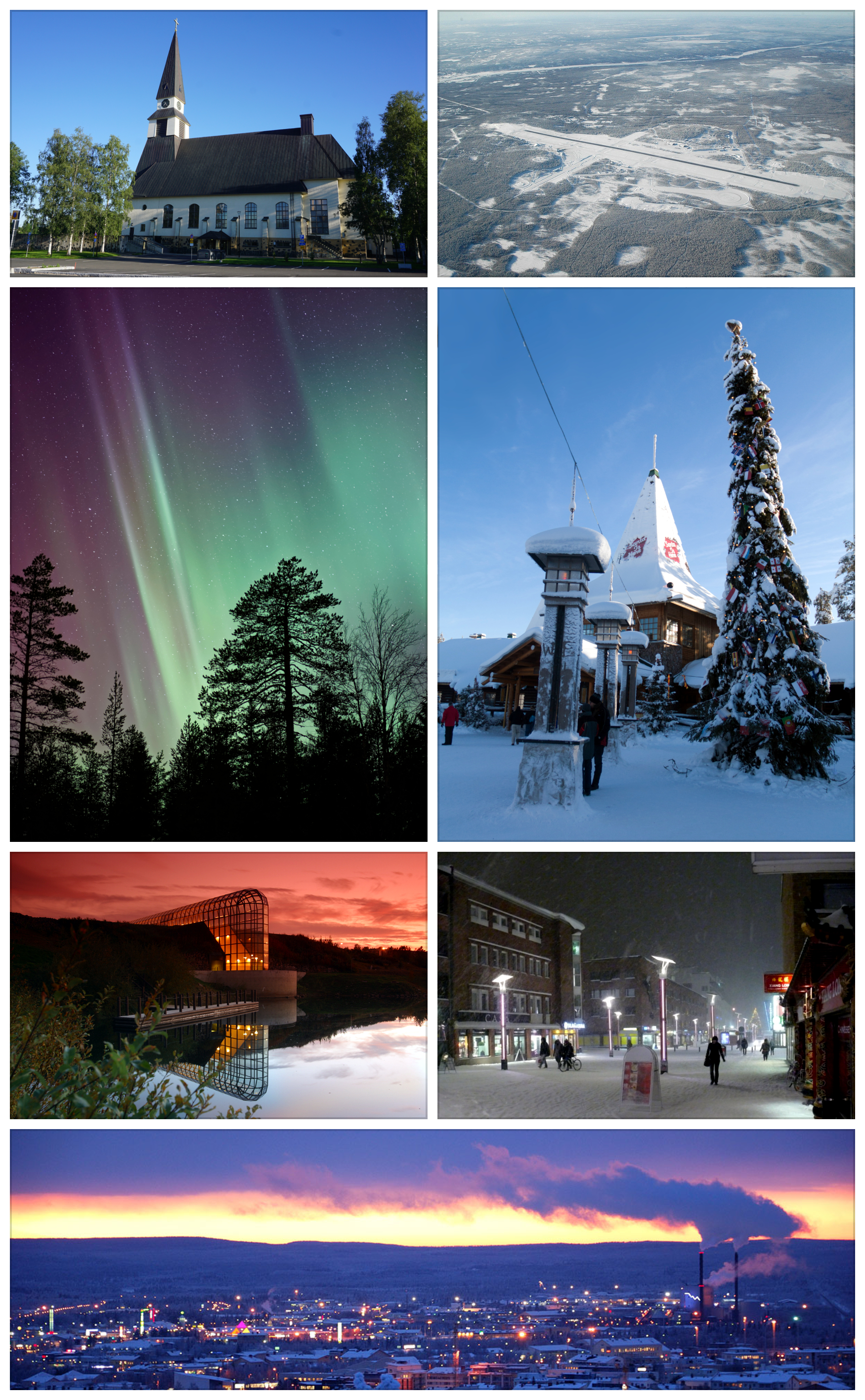 A montage of the city of Rovaniemi, Finland. Includes pictures of the Rovaniemi Church (Rovaniemen kirkko), the Rovaniemi Airport, the Santa Claus Village, and the Arktikum Science Museum.